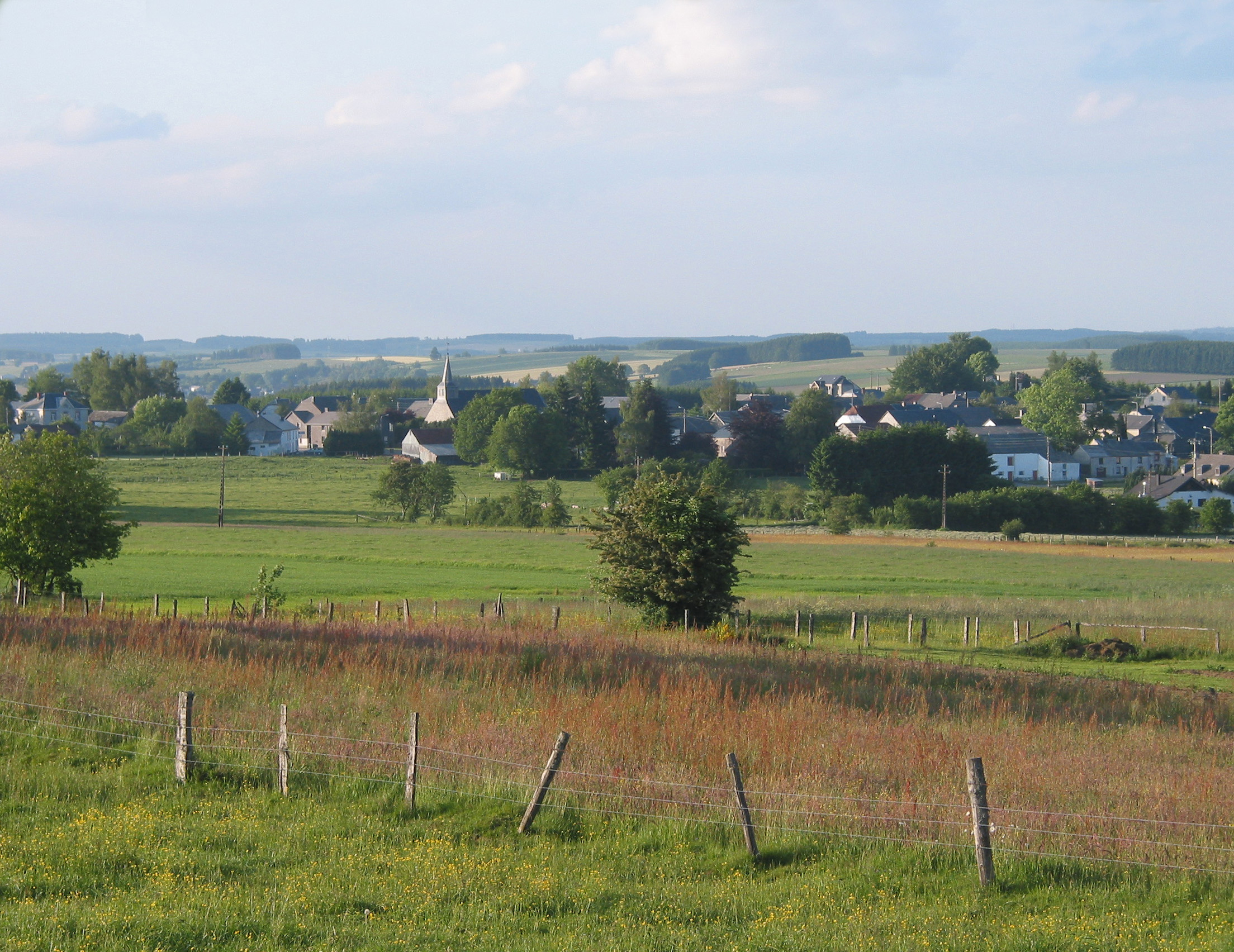 Ébly (Belgium), the village in the spring.